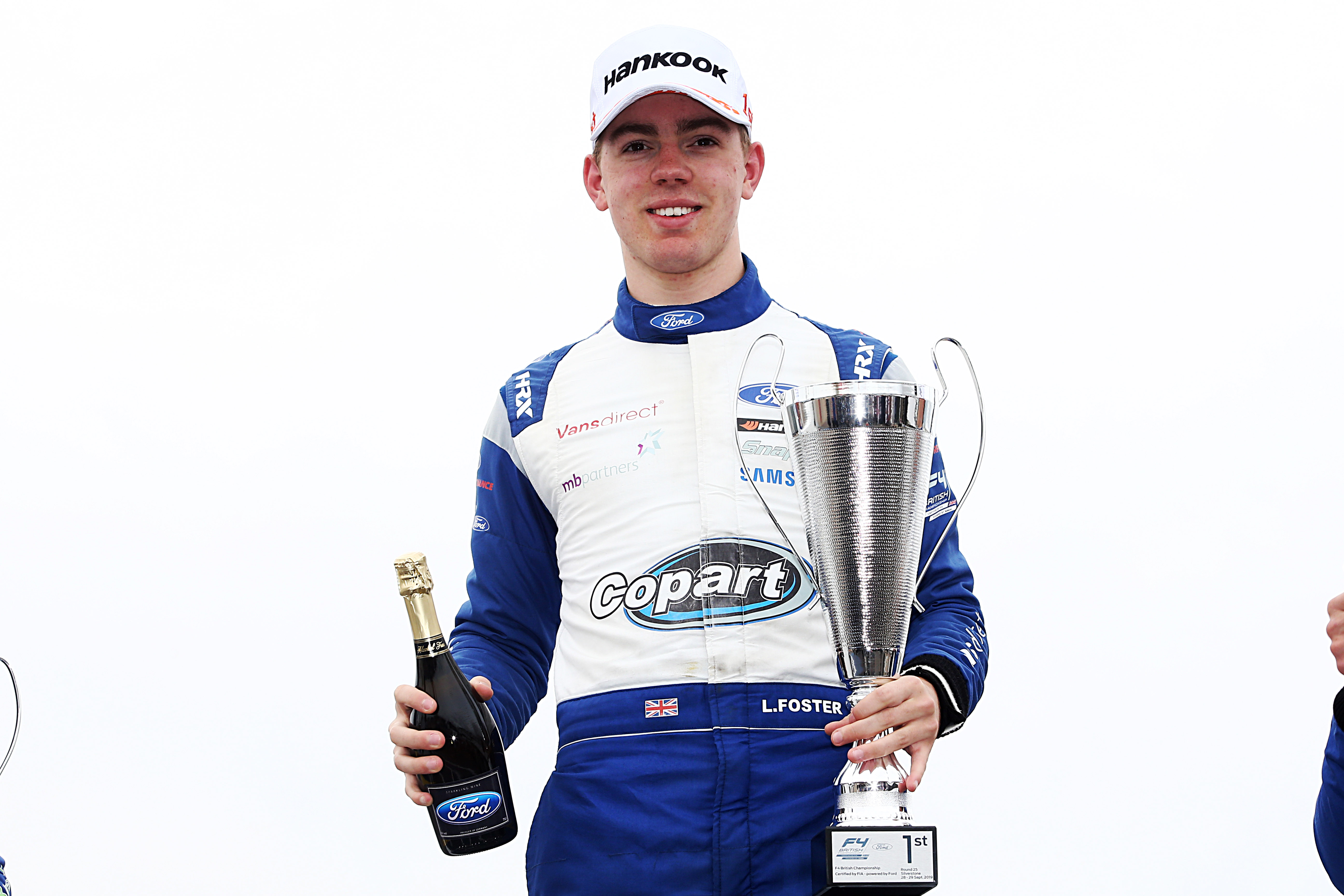 Louis Foster on the British F4 podium after winning at Silverstone.